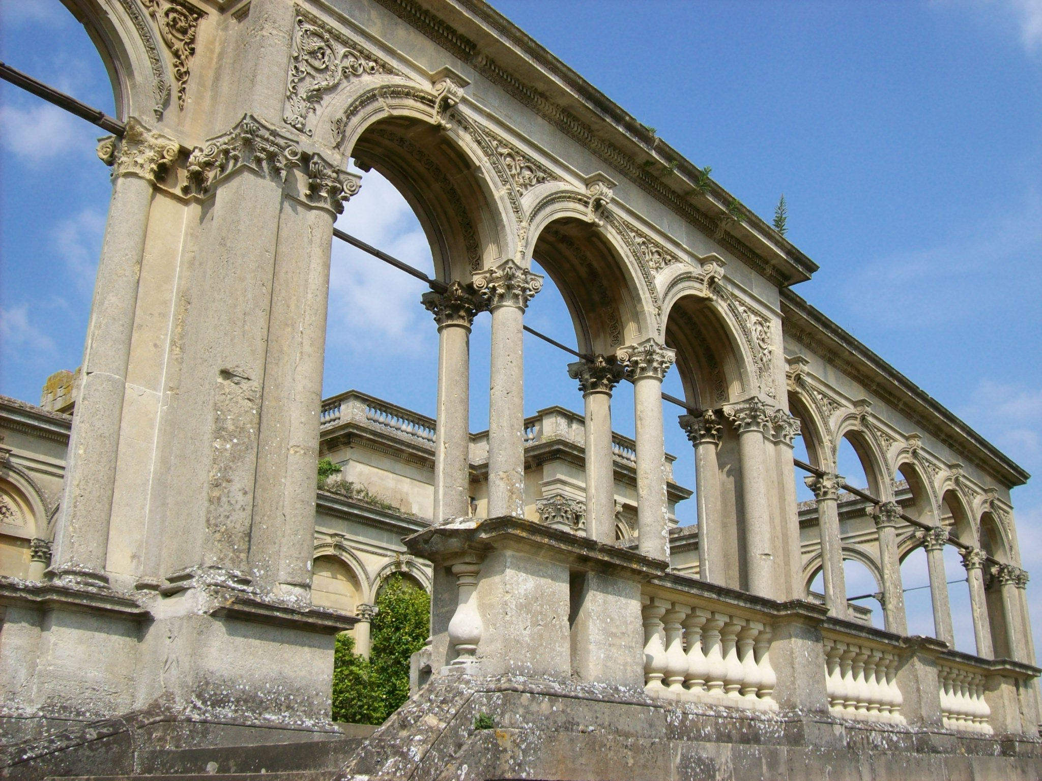 The Conservatory, Witley Court